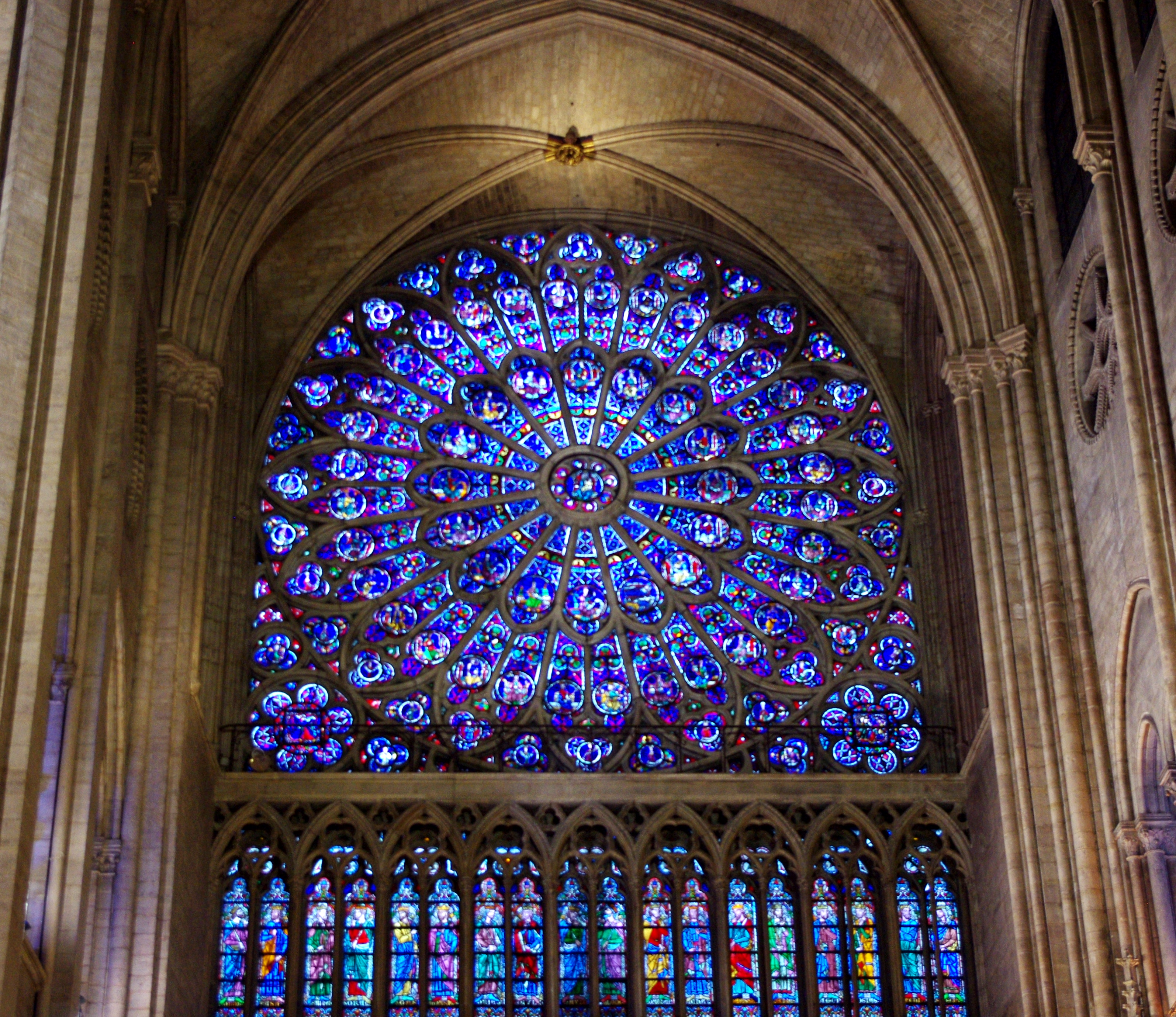 North Rose Window in Notre Dame, Paris.